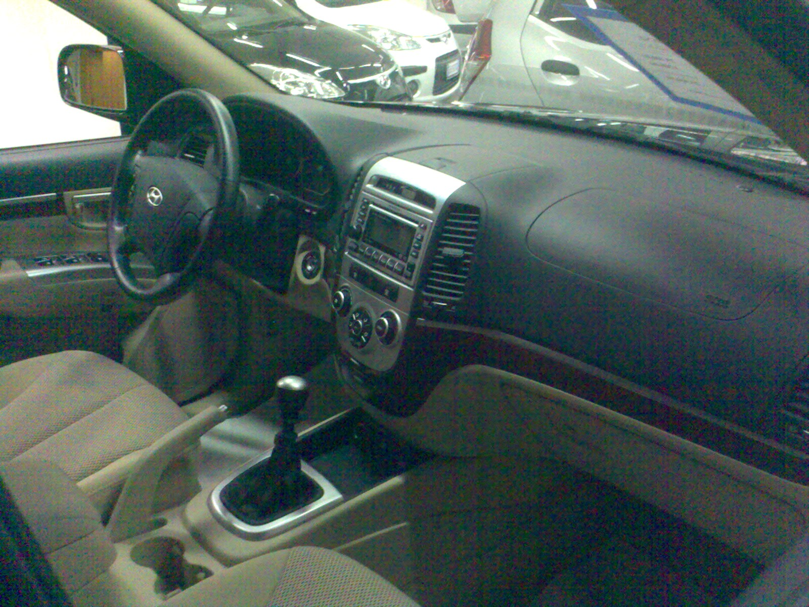 Dashboard Hyundai Santa Fe